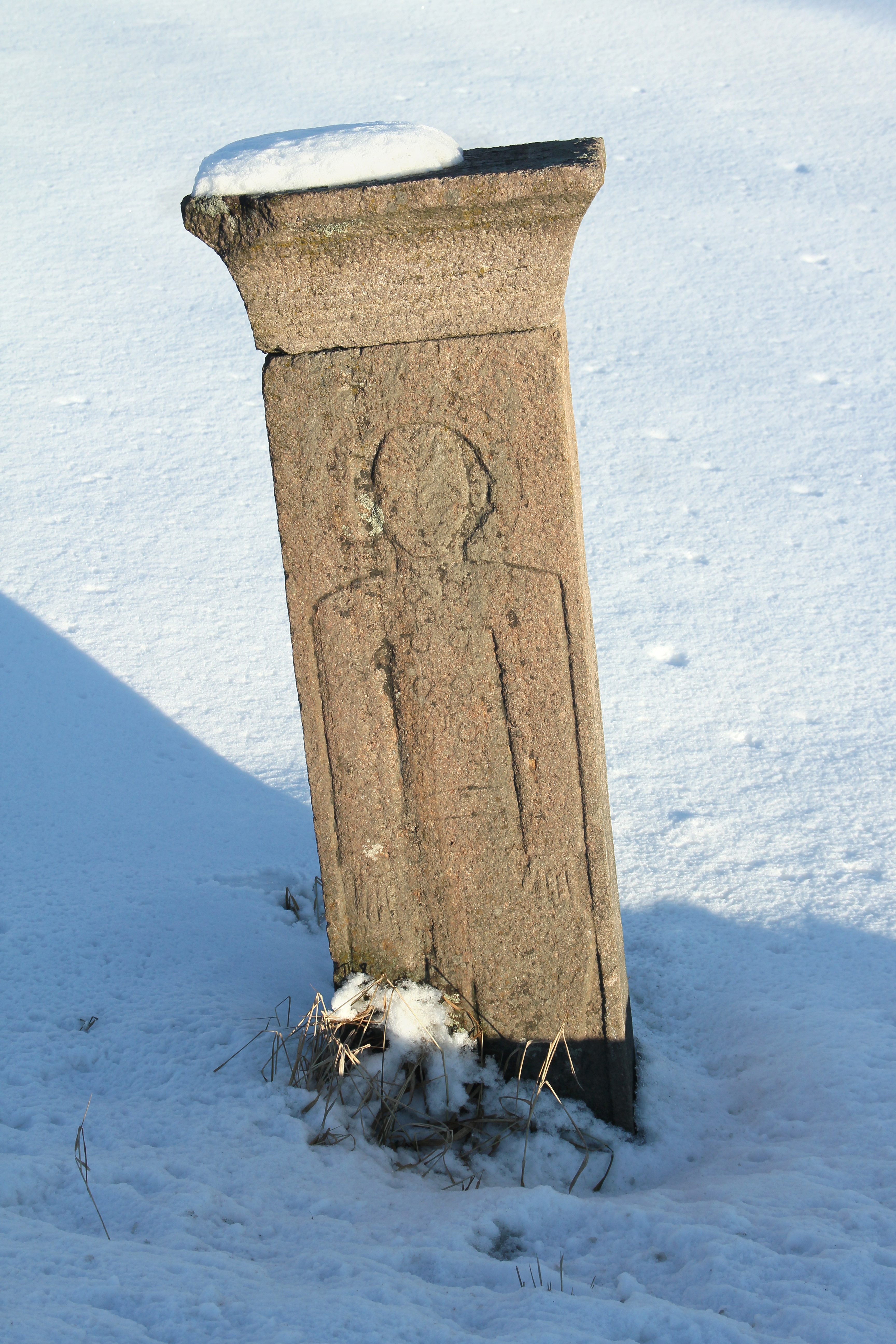 Roadside tombstone erected in memory of Stevan Bozovic, a soldier that was killed in the Serbo-Turkish War (1876–78). It is located in the village Majdan (municipality of Gornji Milanovac), Serbia.